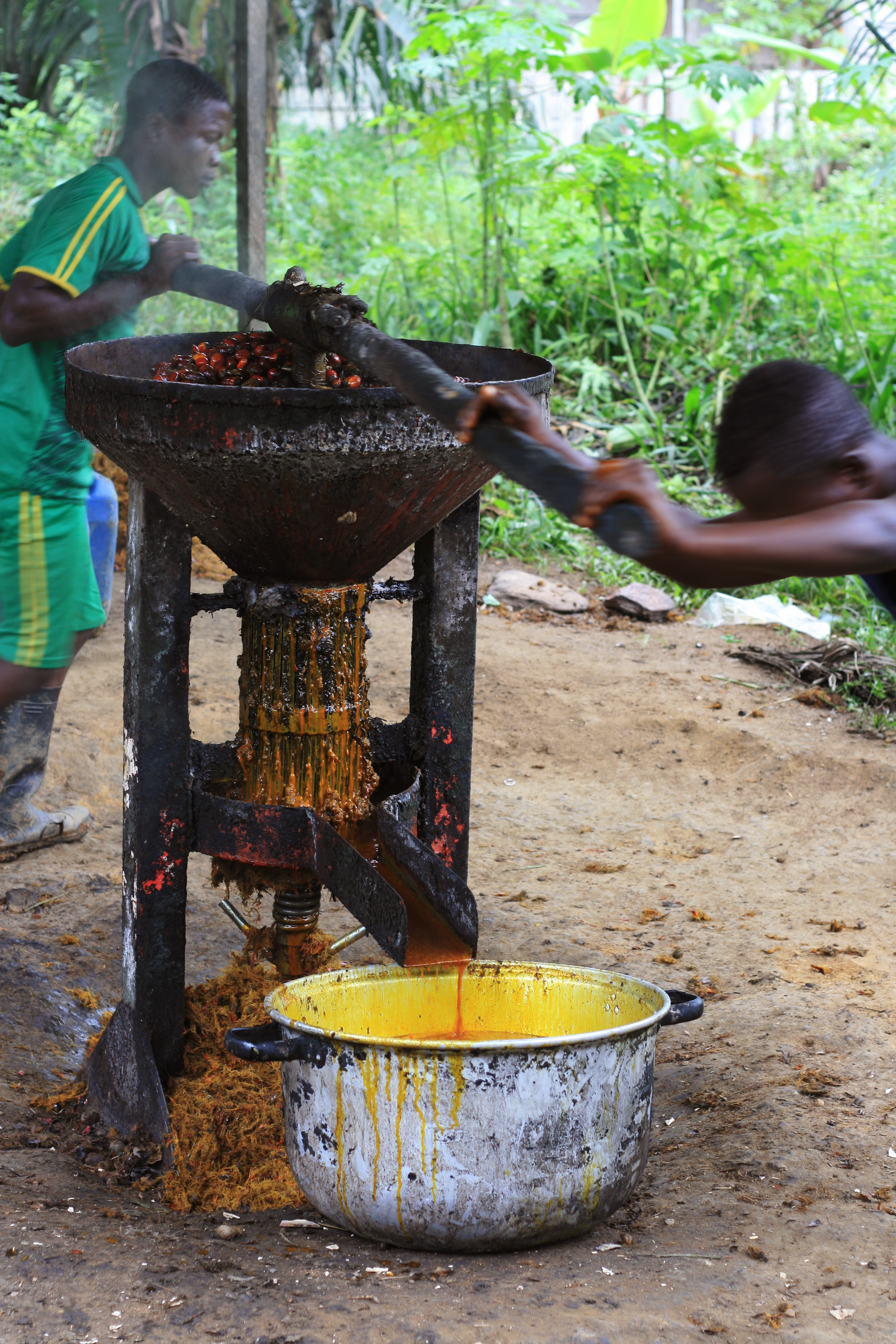 Palm oil in Tayap village (Cameroon)